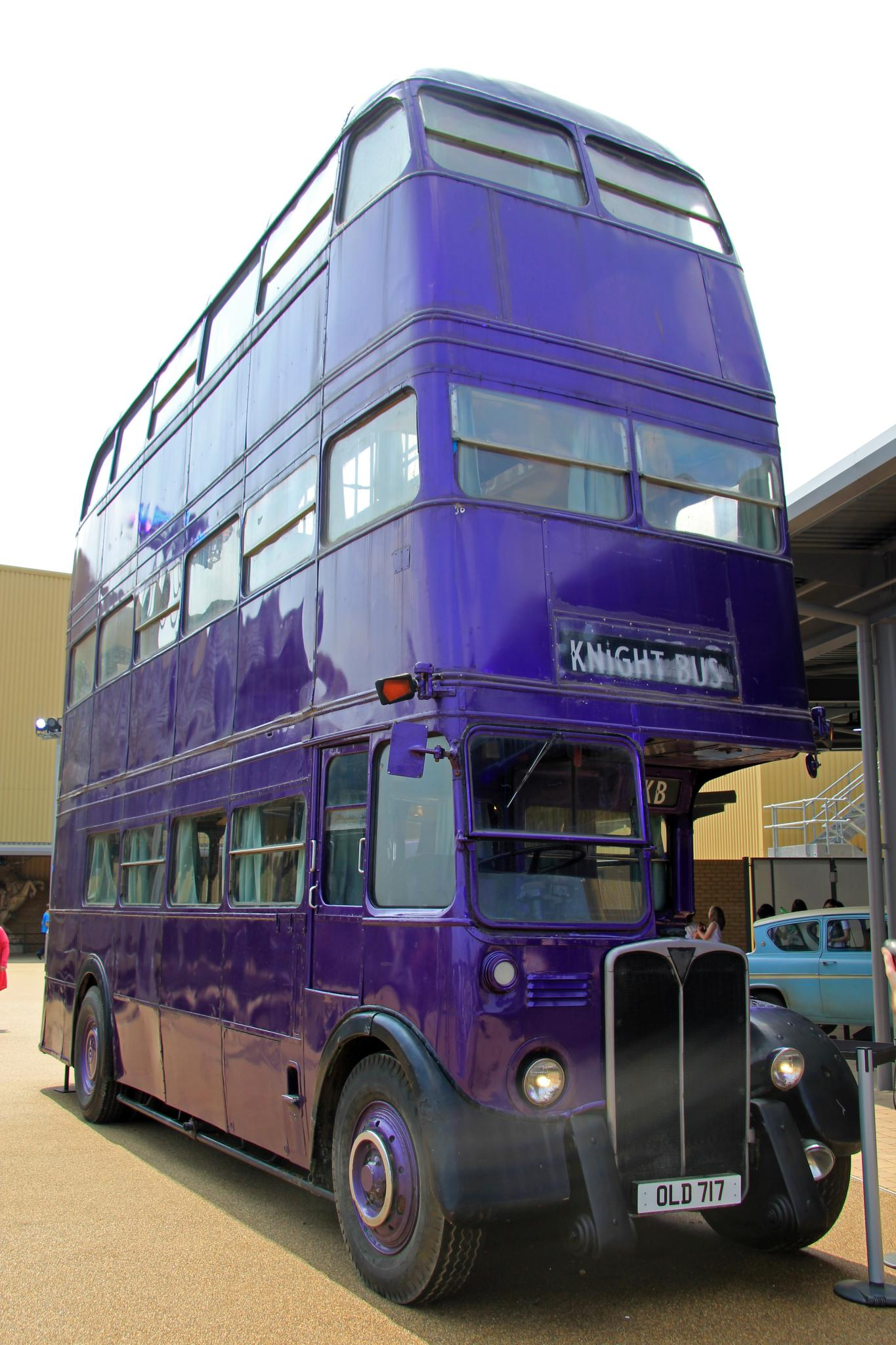 Warner Bros. Studio Tour London: The Making of Harry Potter.